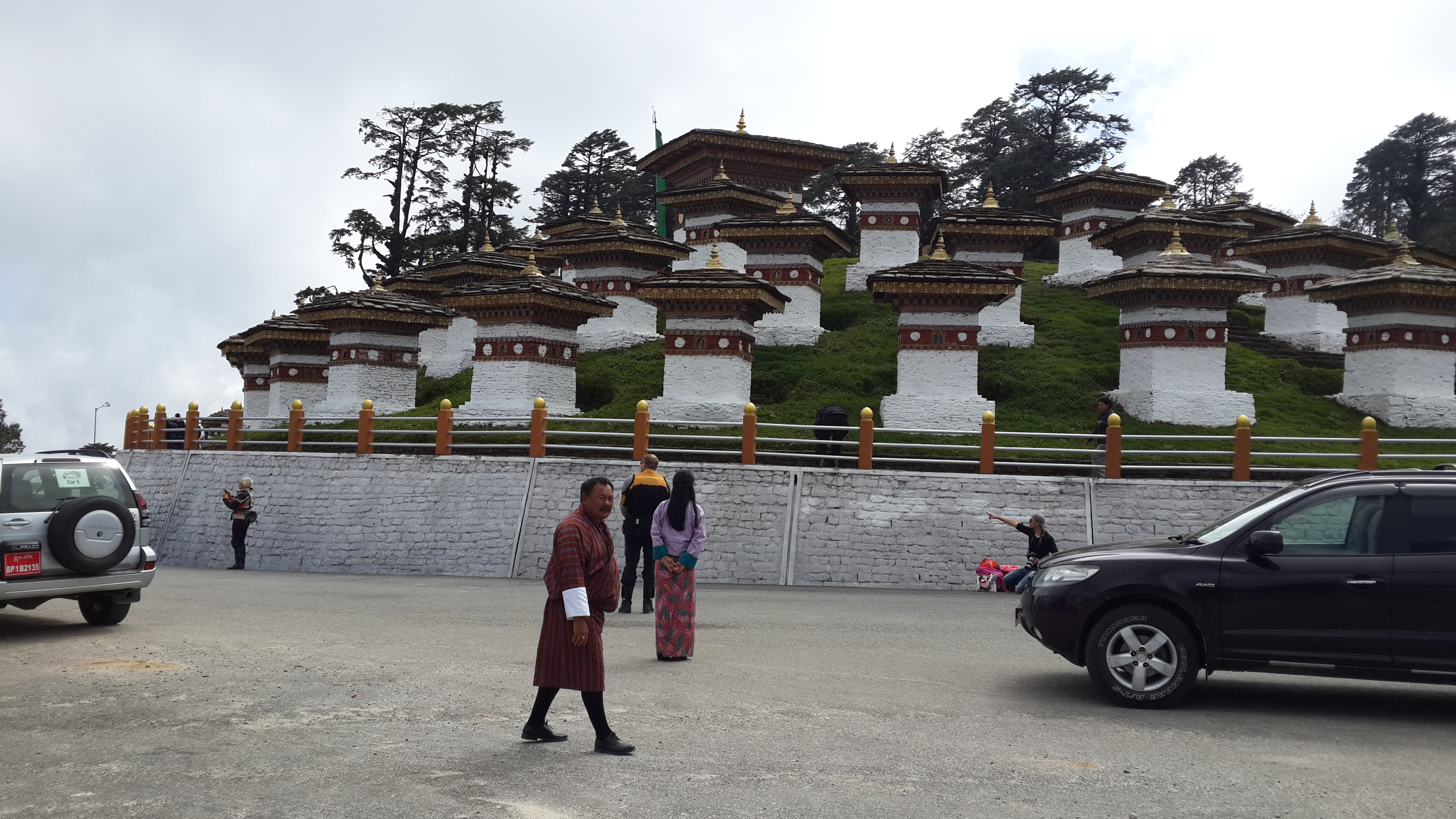 Dochula pass with 108 stupas in Thimpu on the east west road